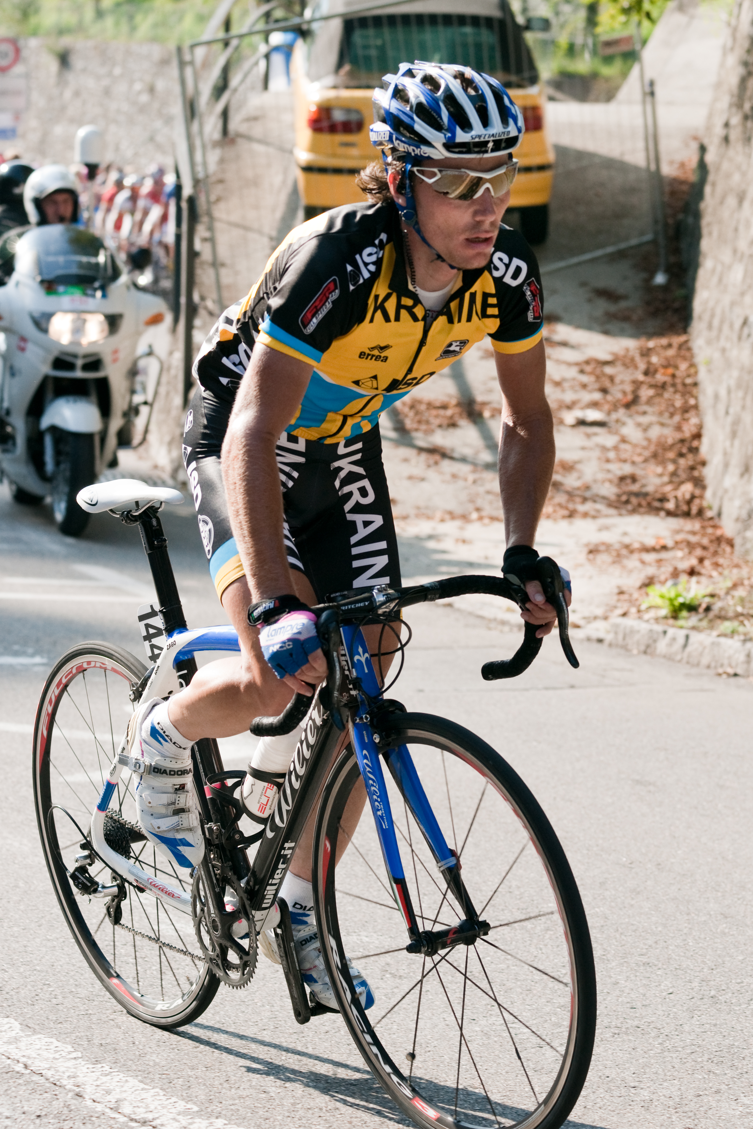 Volodymyr Starchyk during the 2009 UCI Road World Championships in Mendrisio, Switzerland.